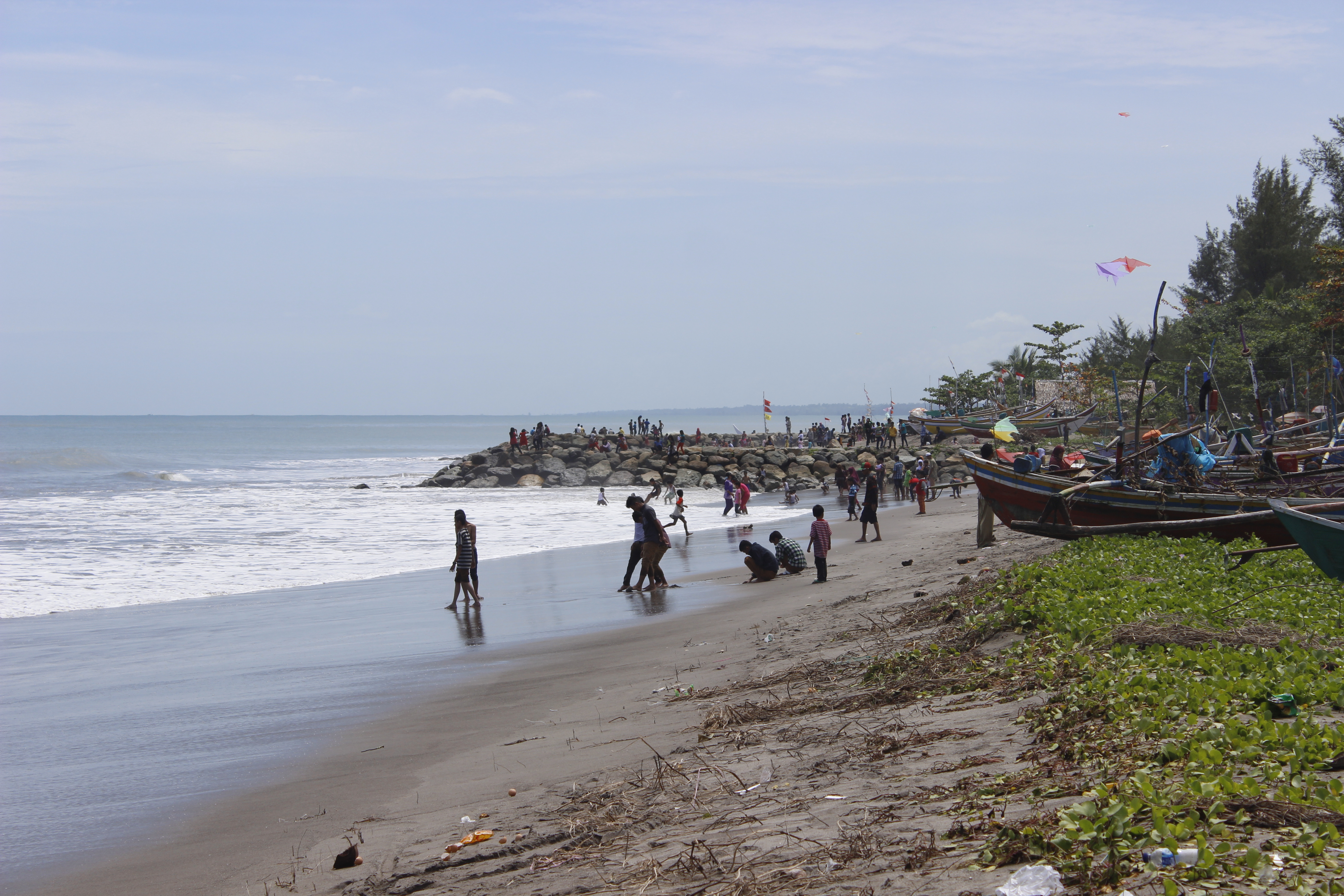 Gandoriah beach in Pariaman, West Sumatra.